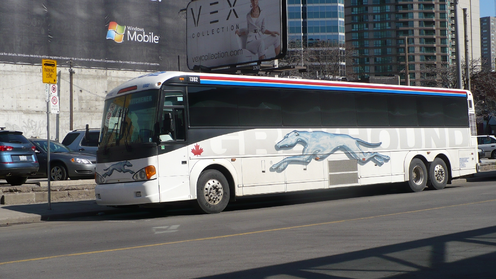 Greyhound Canada #1302 on the street opposite the Toronto Coach Terminal